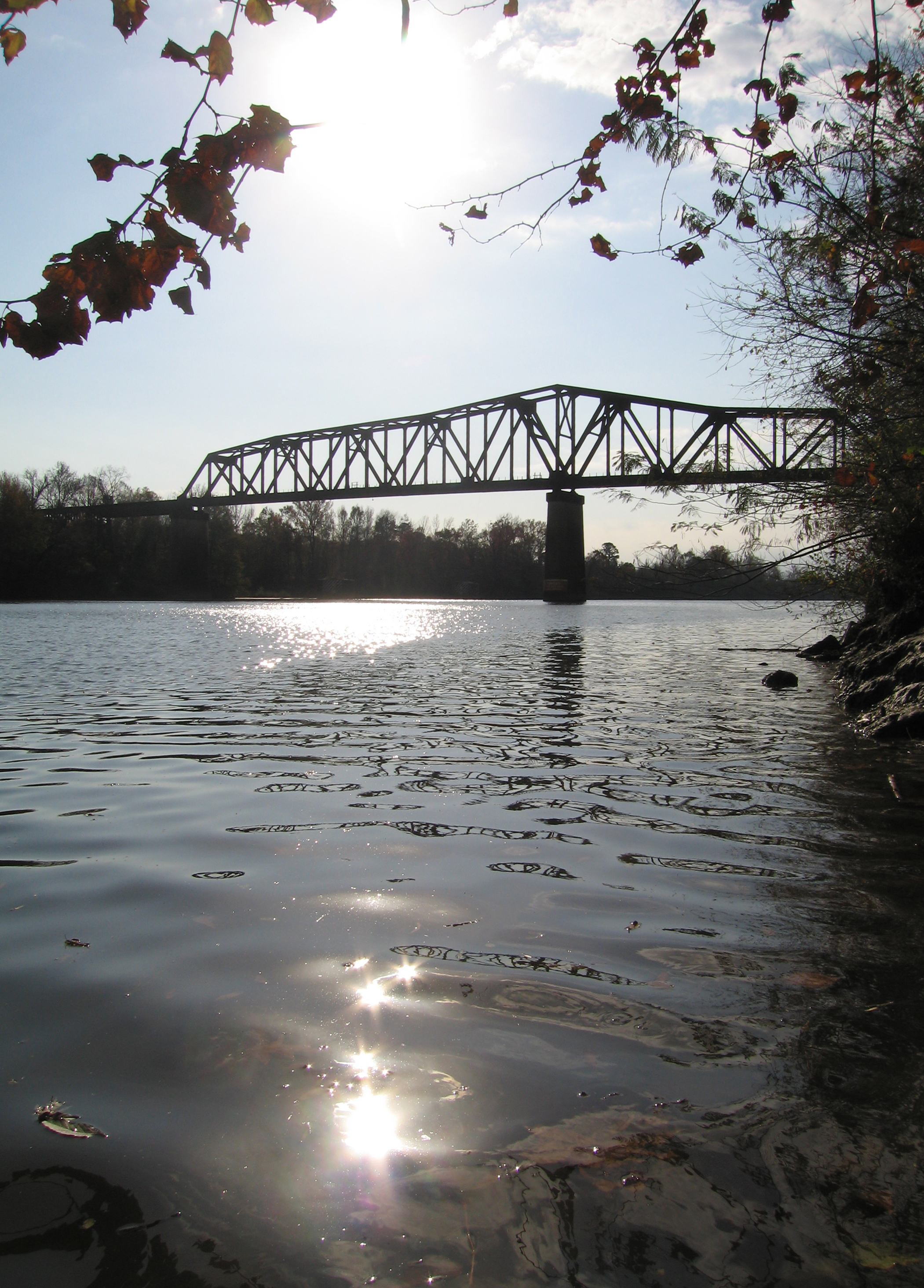 The Black Warrior River running through Tuscaloosa, Alabama, USA